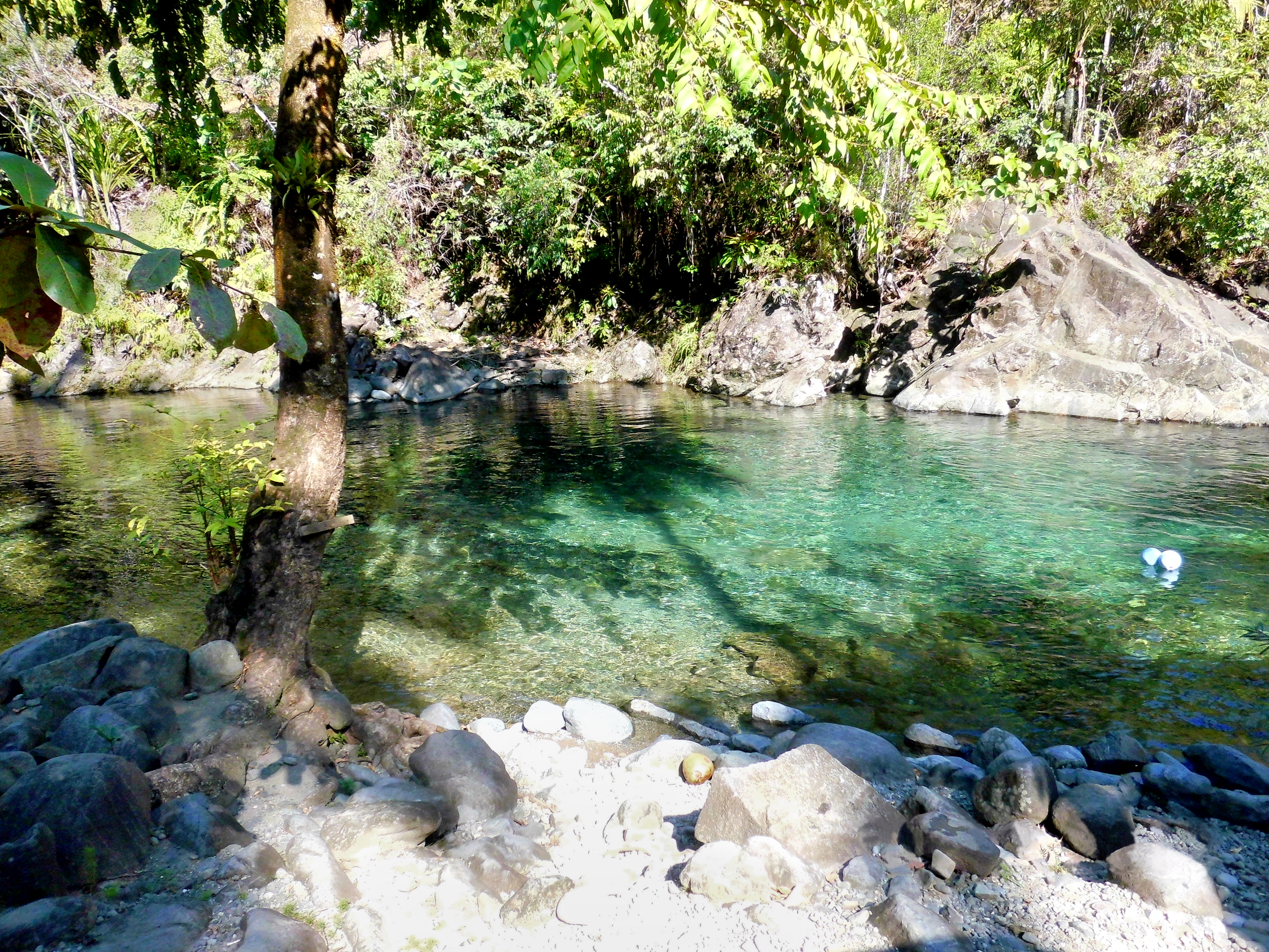 Jungle bath Malibu (Hubason), middle part